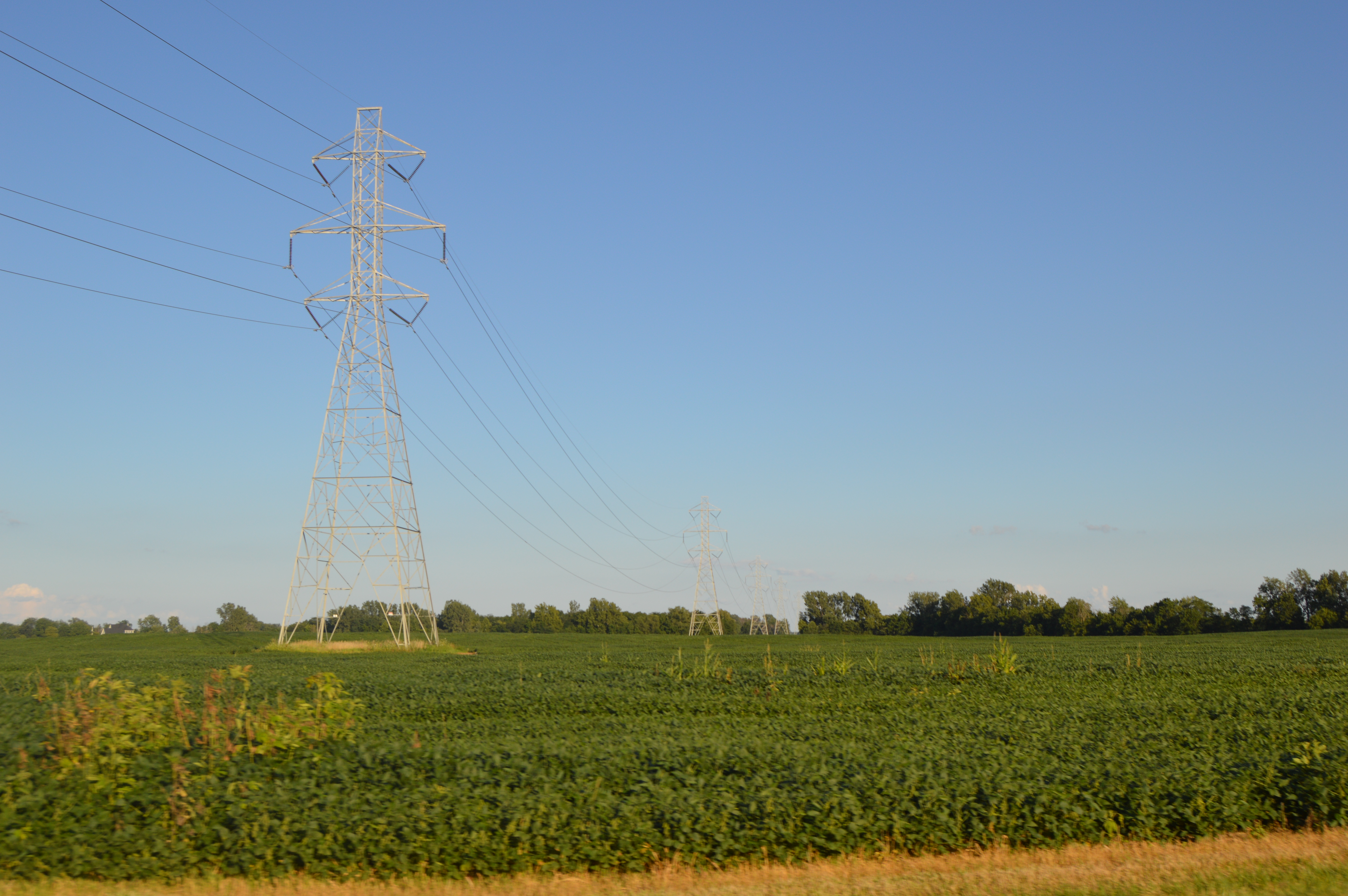 Looking southwest from the junction of State Route 292 and County Road 117 south of Ridgeway in Bokescreek Township, Logan County, Ohio, United States.